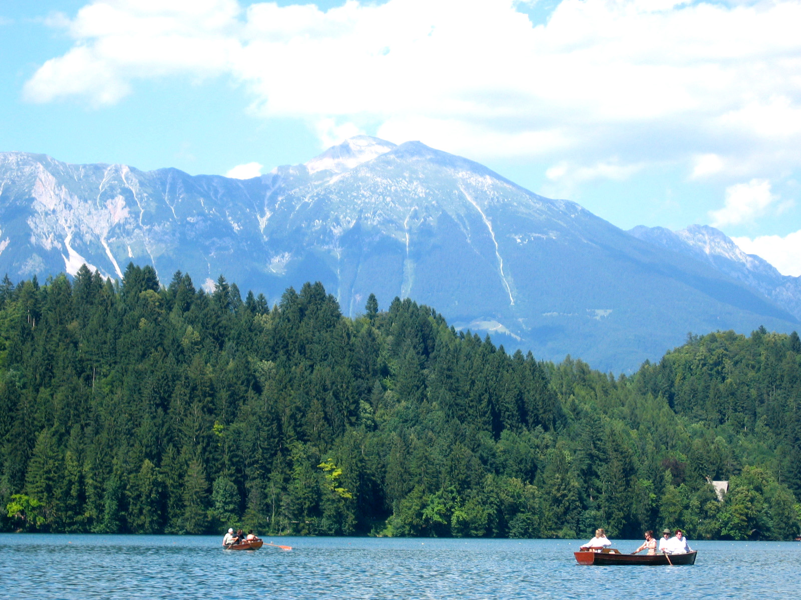 Stol, highest mountain in Karavanke-Alps, Slovenia